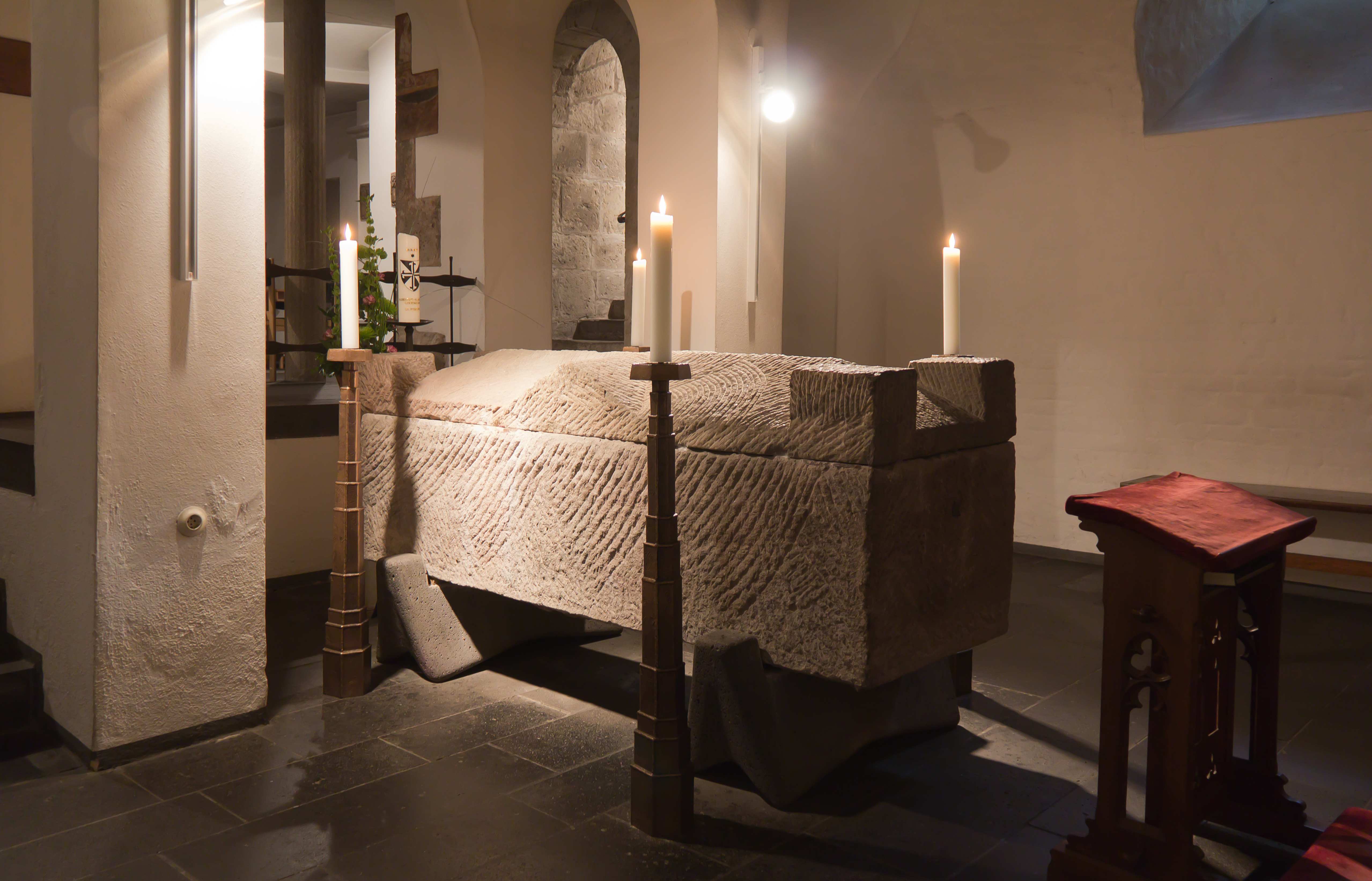 Tomb of Albertus Magnus in the crypt of St. Andreas, Cologne